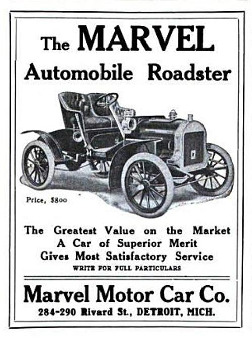 Marvel Motor Car Co advertisement